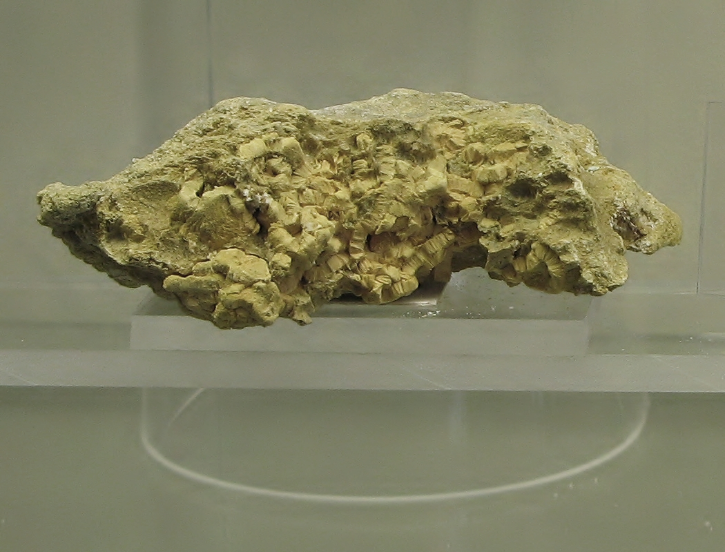 Coquimbiet - Locality: Copiapo, Chile - Exposed in the Mineralogical Museum, Bonn, Germany